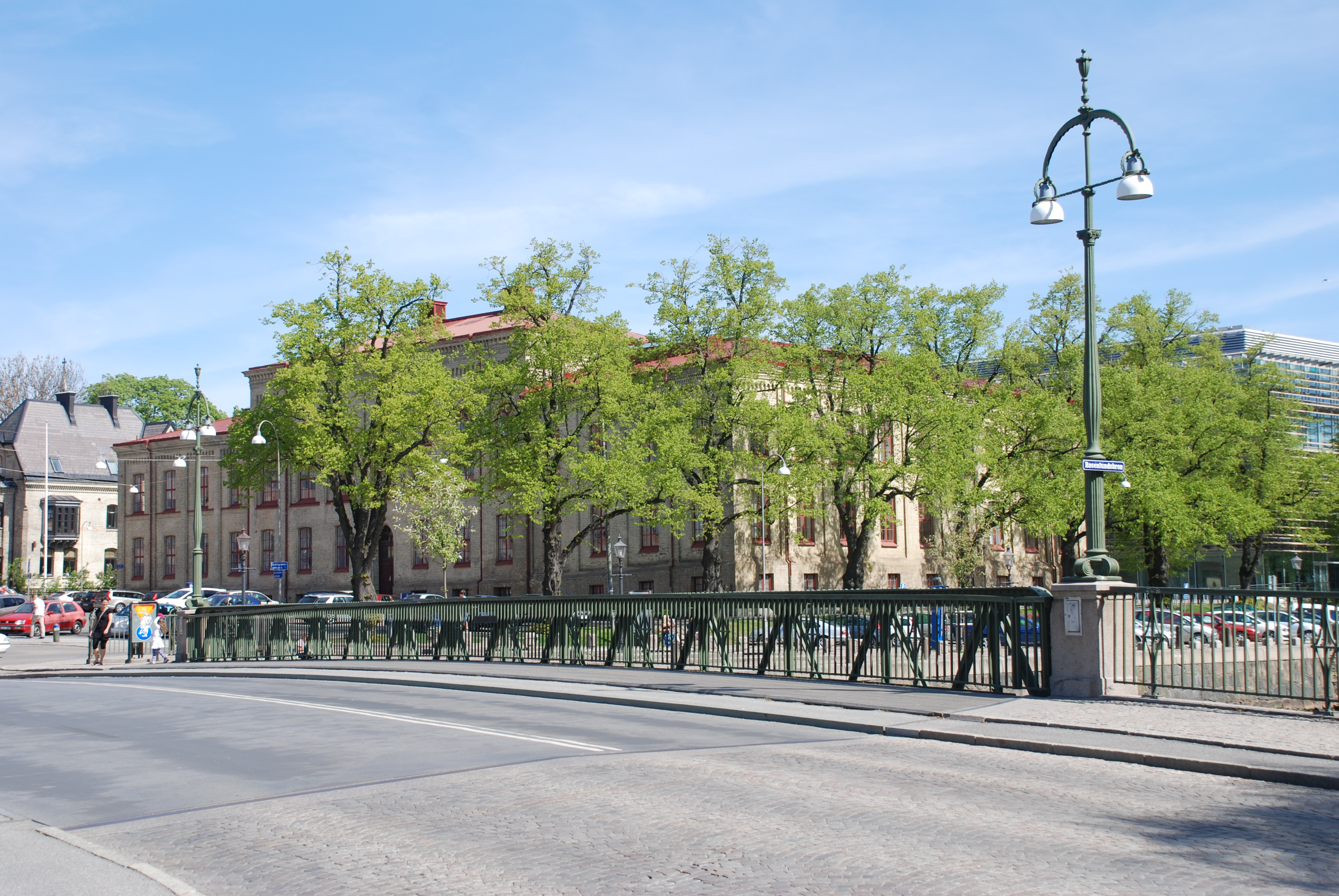 The bridge Rosenlundsbro across the moat at Hvitfeldtsplatsen in Göteborg.